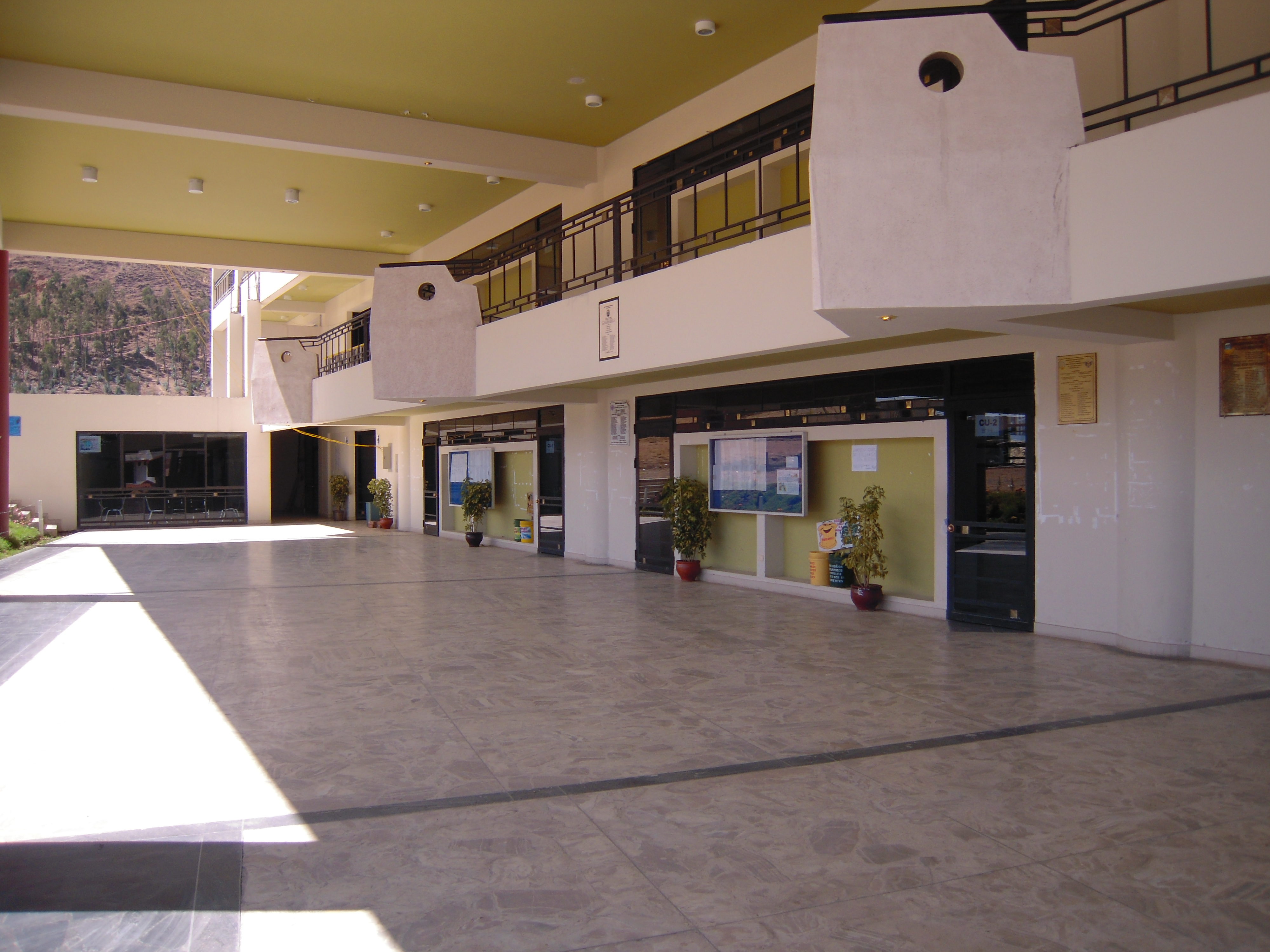 Faculty of Engineering - Los Andes Peruvian University - UPLA